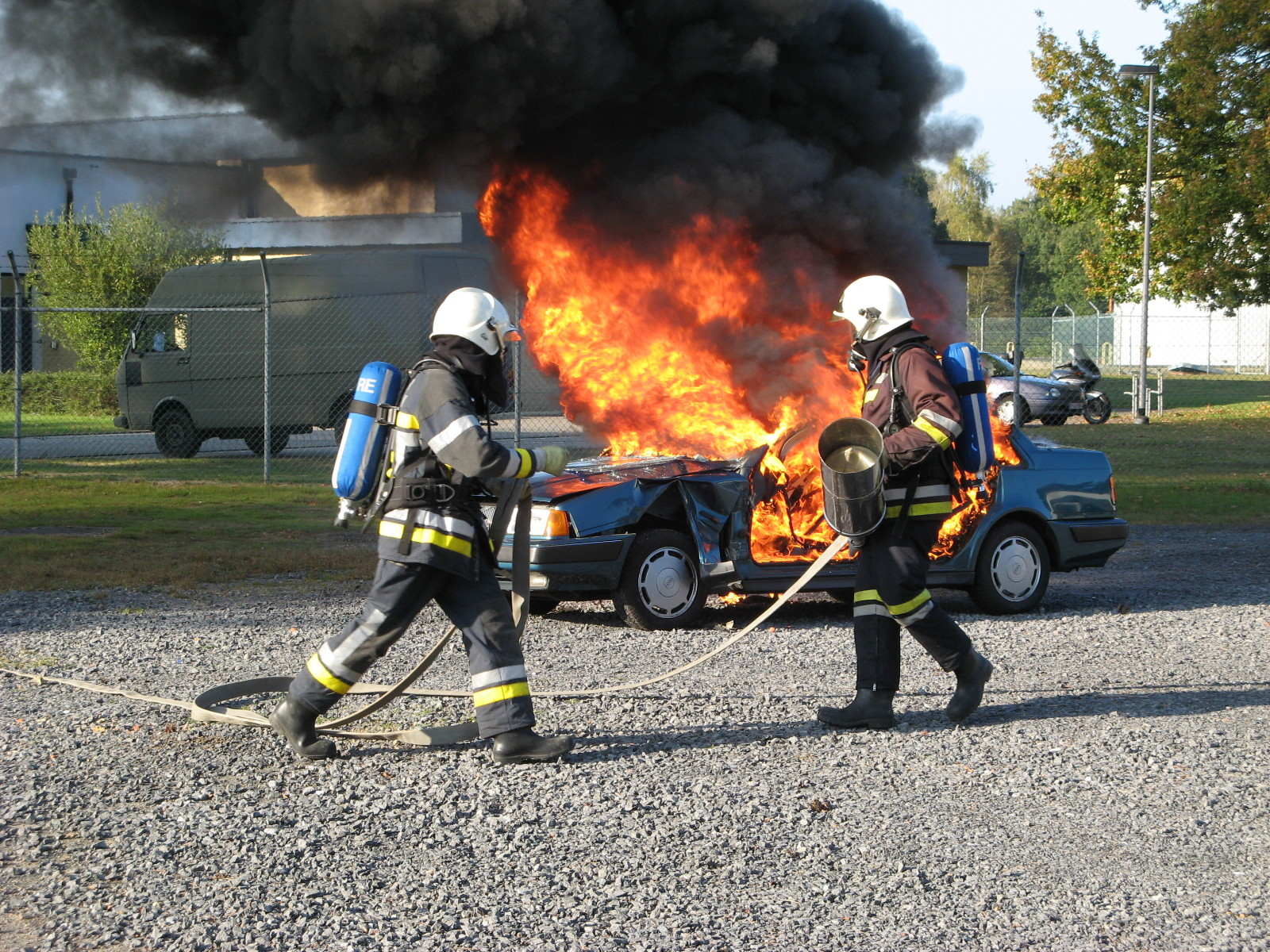 Fire training by civil Fire Dpt on Army base in Grobbendonk, Belgium